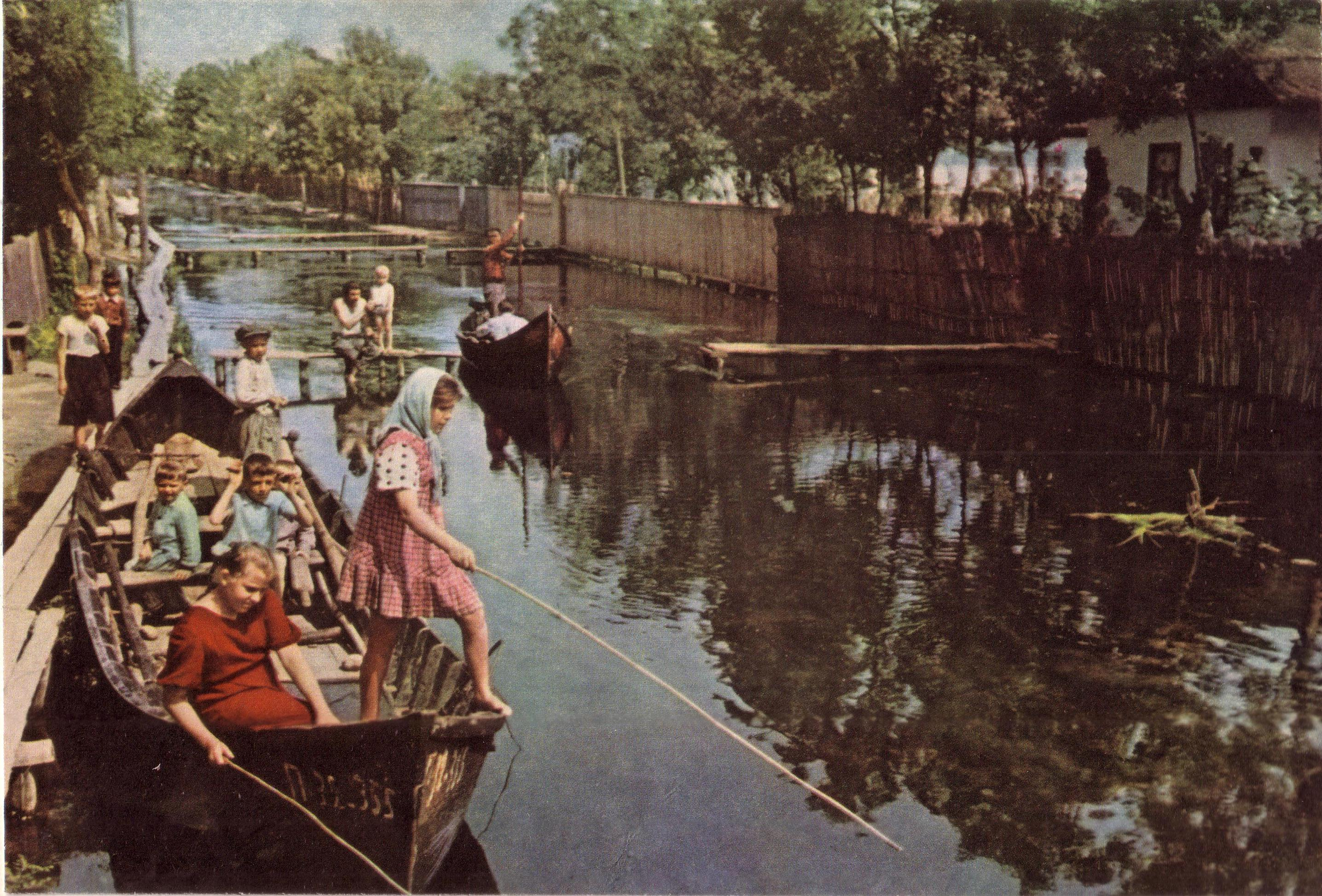 Vilkovo Dunayskie plavni.